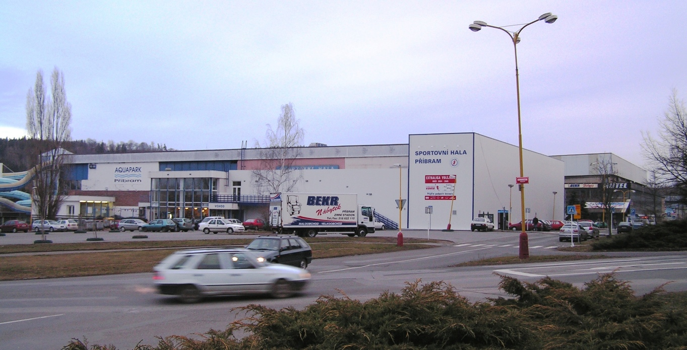 Sport arena of Příbram.